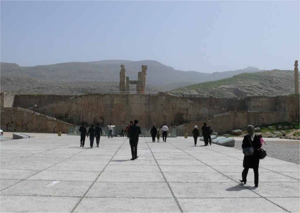 Persepolis, Main Stairway, Iran